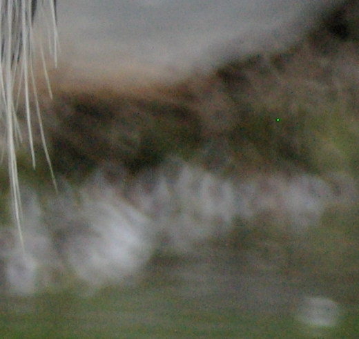 An image demonstrating the donut-shaped bokeh that a catadioptric lens produces.